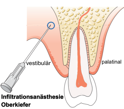 Infiltration anesthesia